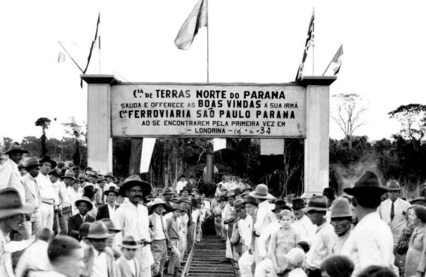 Comemoração do término do assentamento dos trilhos da Estrada de Ferro São Paulo-Paraná até Londrina, ainda em 1934, antes da conclusão das obras da ponte sobre o rio Tibagi.